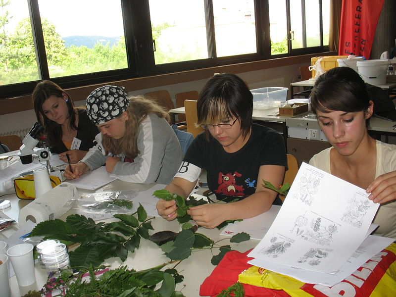 This image was taken during the final competition of BIT in Villach, AUSTRIA in June 2007